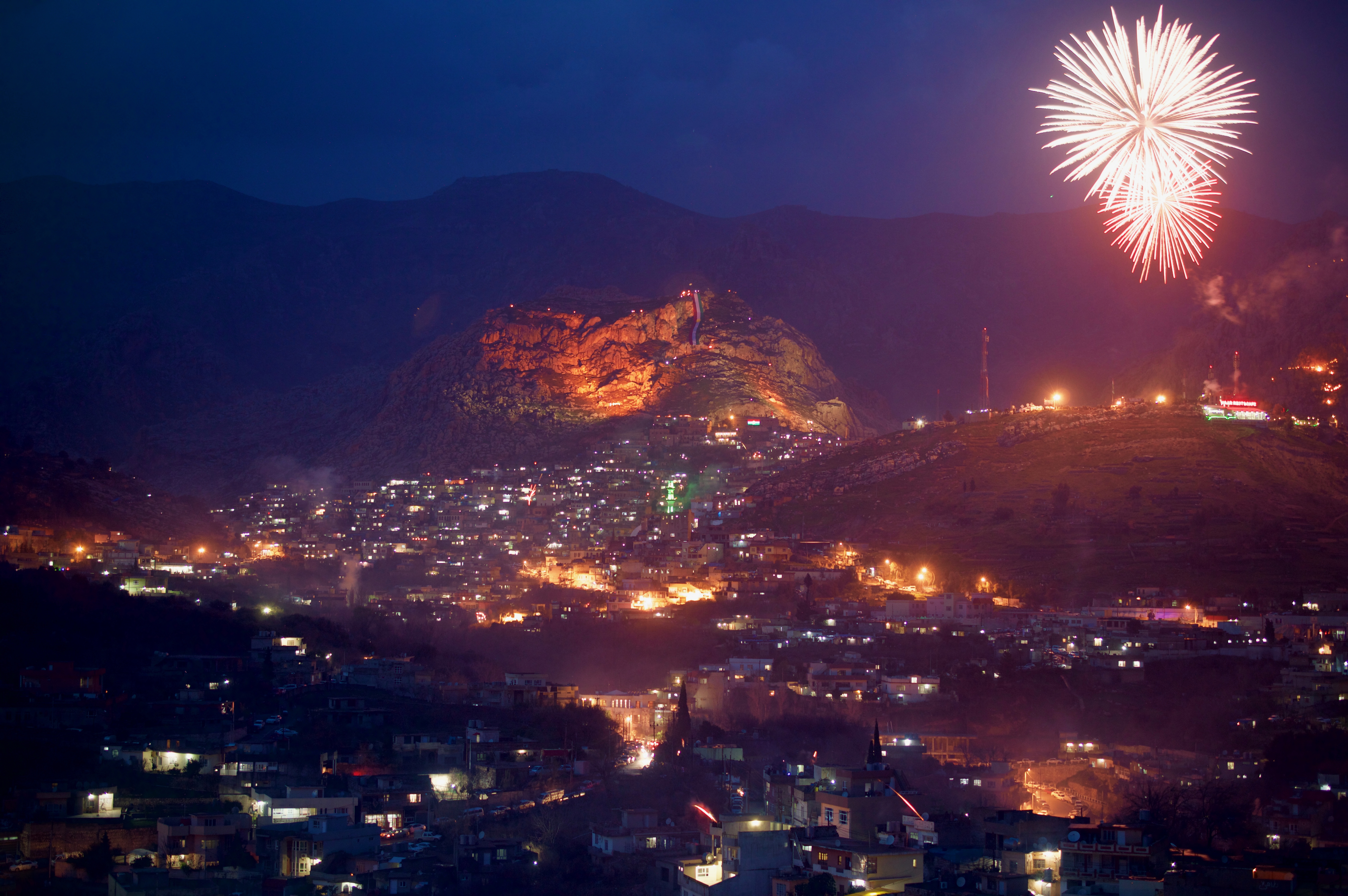 2017 Nawroz (Newroz) festival in Akre (Aqre), Kurdistan Region of Iraq